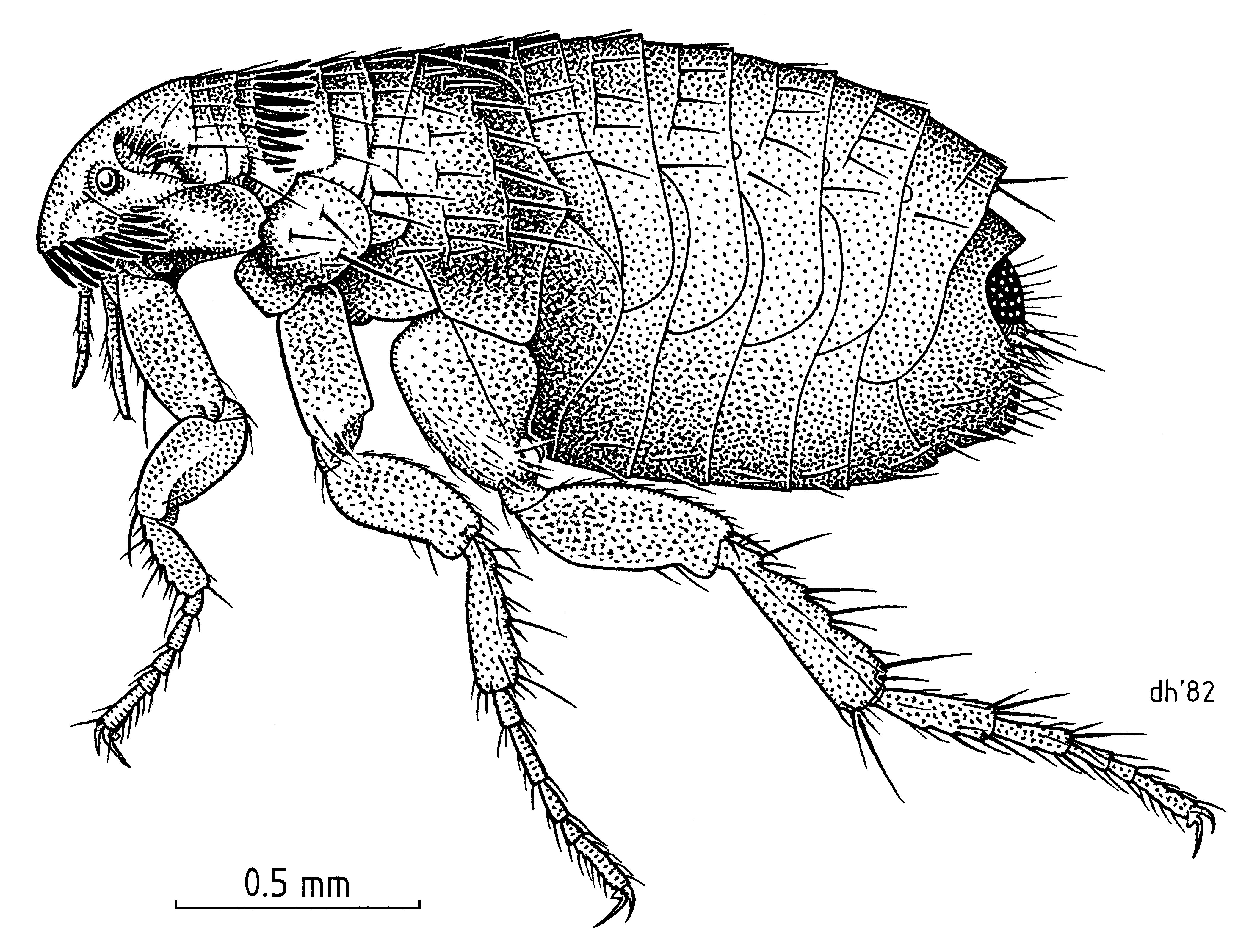 (Siphonaptera: Pulicidae) Ctenocephalides felis felis illustrated by Des Helmore.